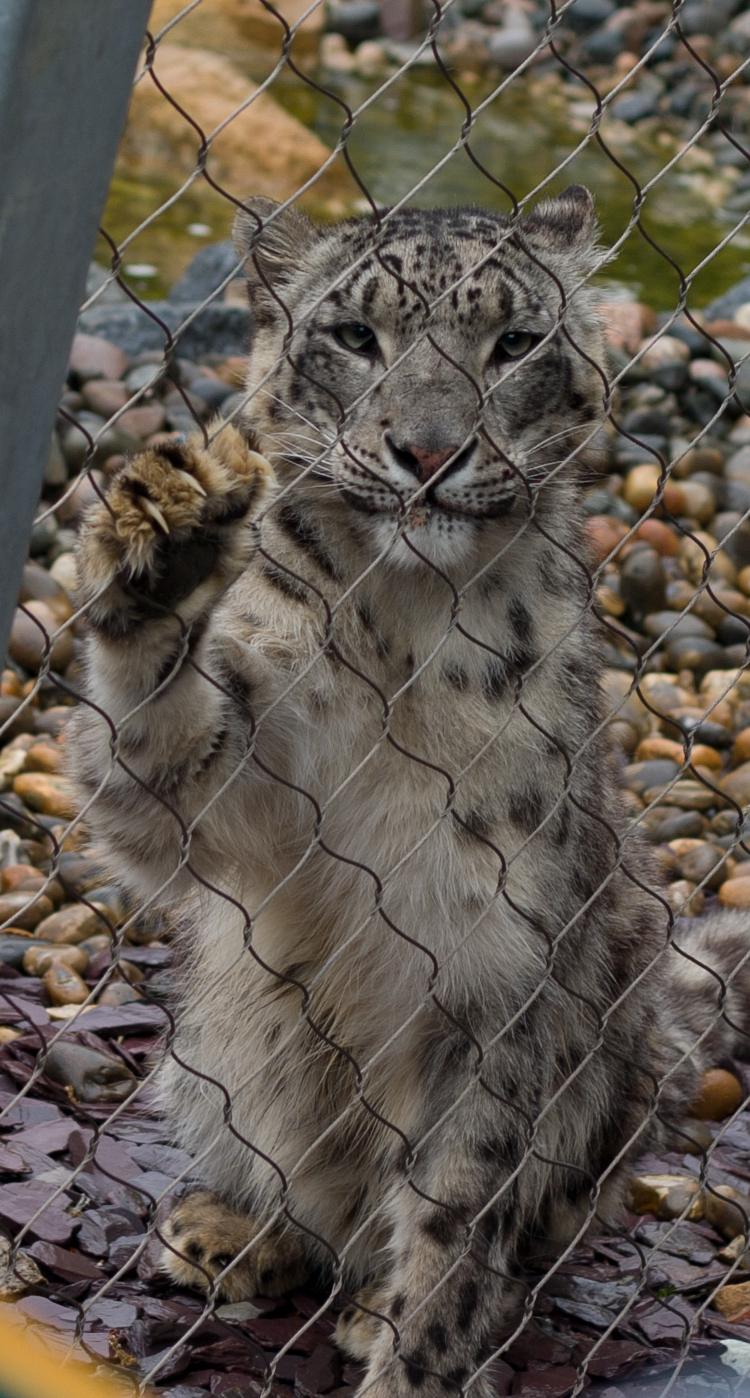 A Snow Leopard at Banham Zoo, Norfolk, England.